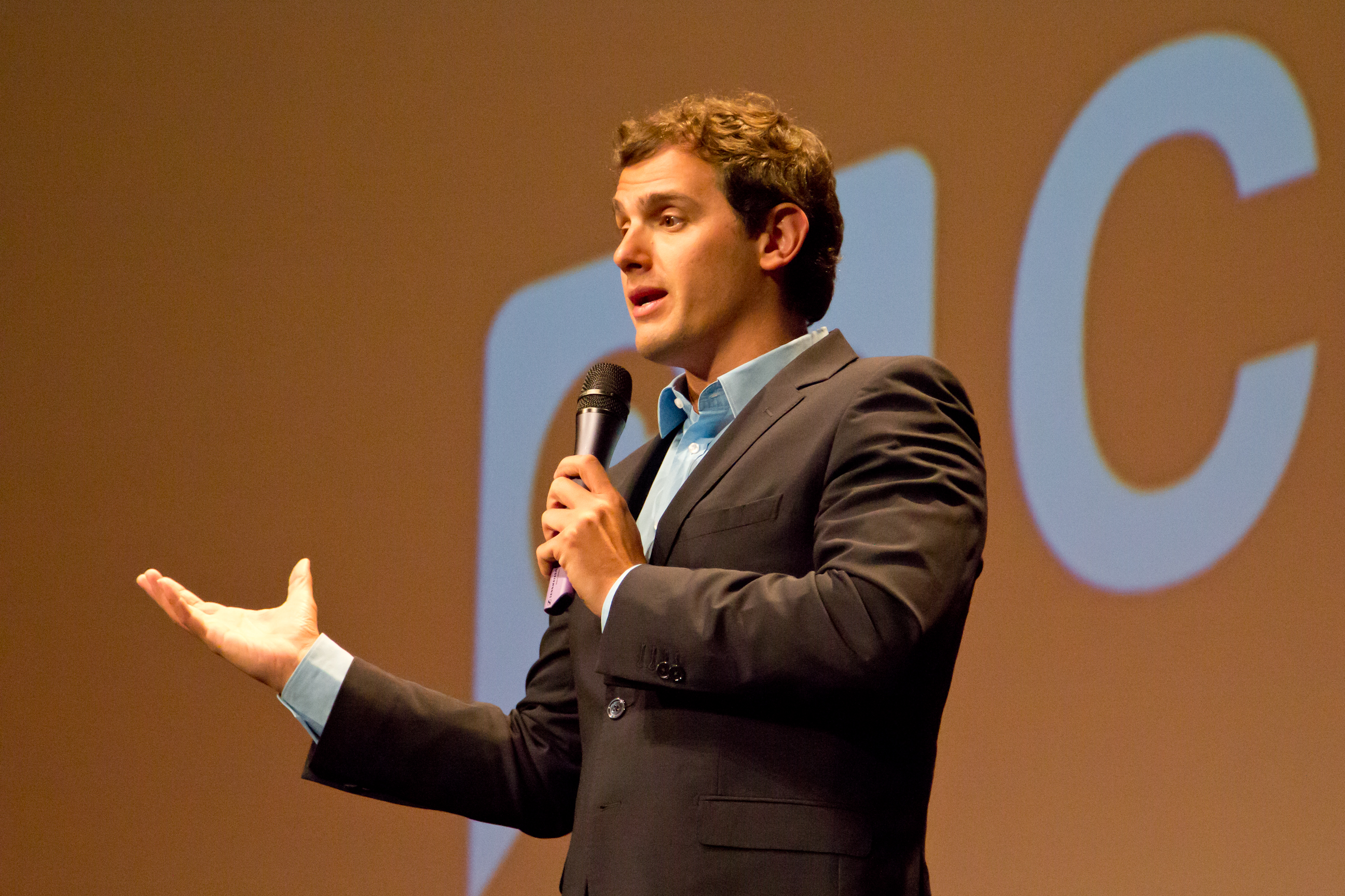 Spanish politician Albert Rivera at an event as president of Ciudadanos.